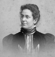 Annah May Soule, from an 1899 publication. A white woman wearing glasses and a high-necked blouse with large sleeves.